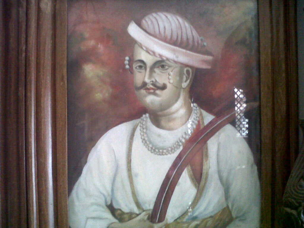 His Highness Shrimant Nanasaheb Peshwa - the Peshwa of Kanpur